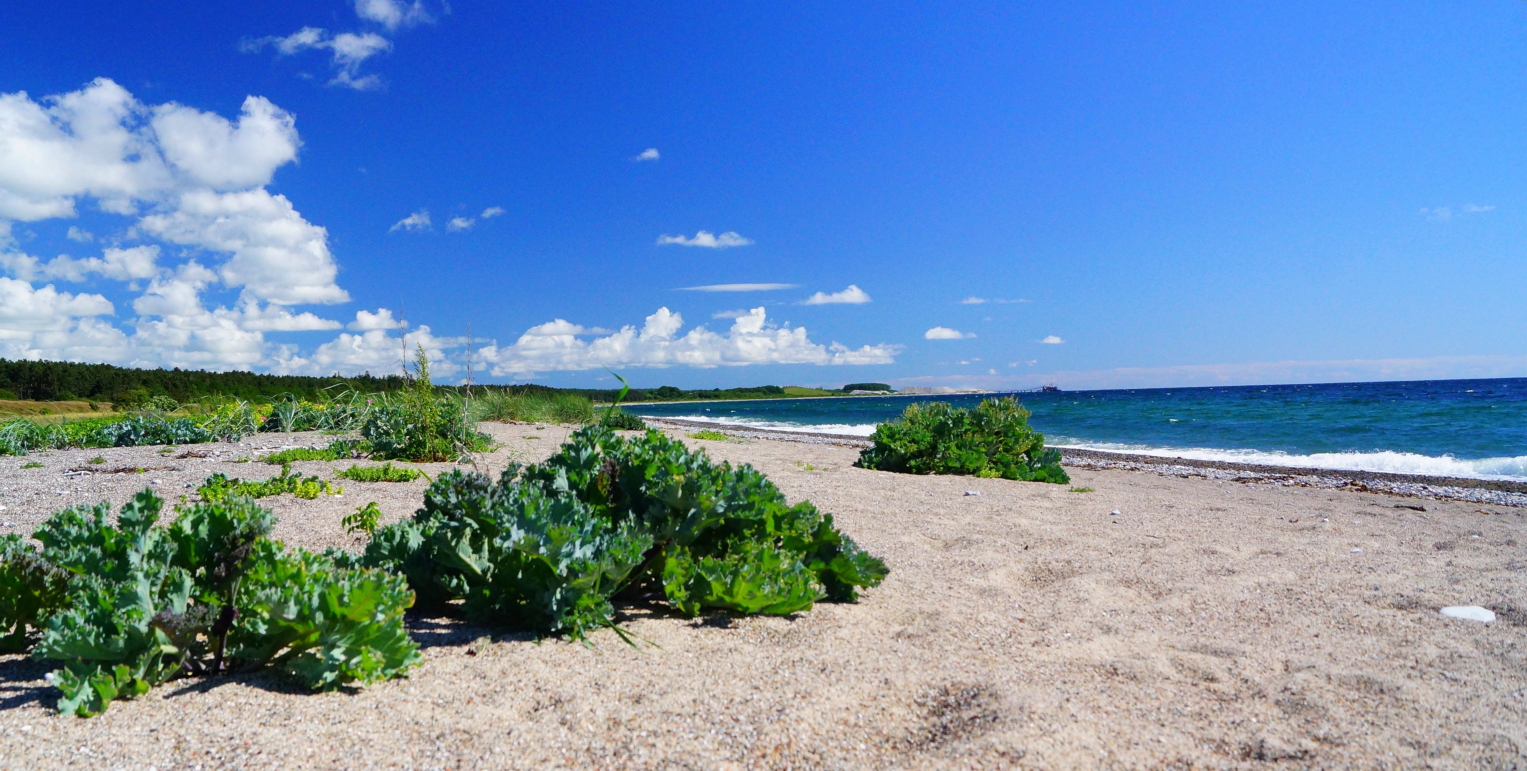 Rugård strand v. Rugård Skov